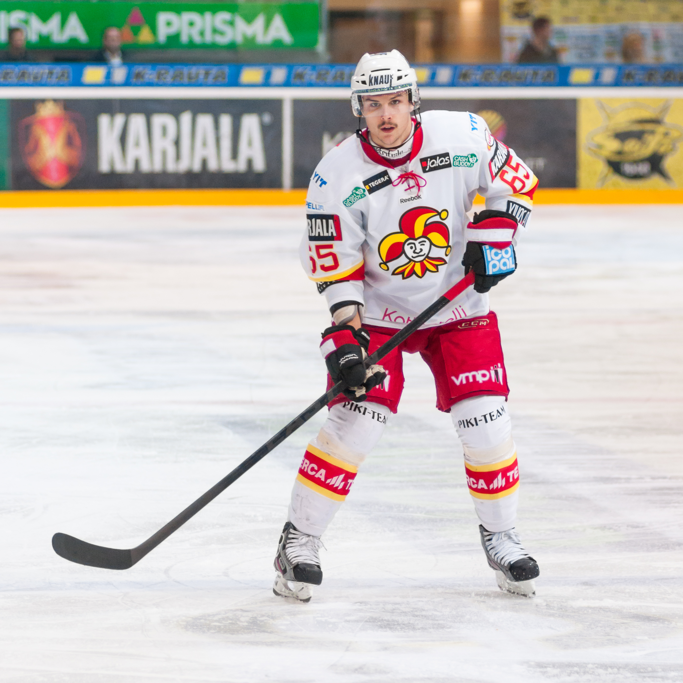 Swedish ice hockey defenseman Erik Karlsson playing for Helsingin Jokerit against SaiPa in Lappeenranta, Finland during the 2012-13 National Hockey League lockout.